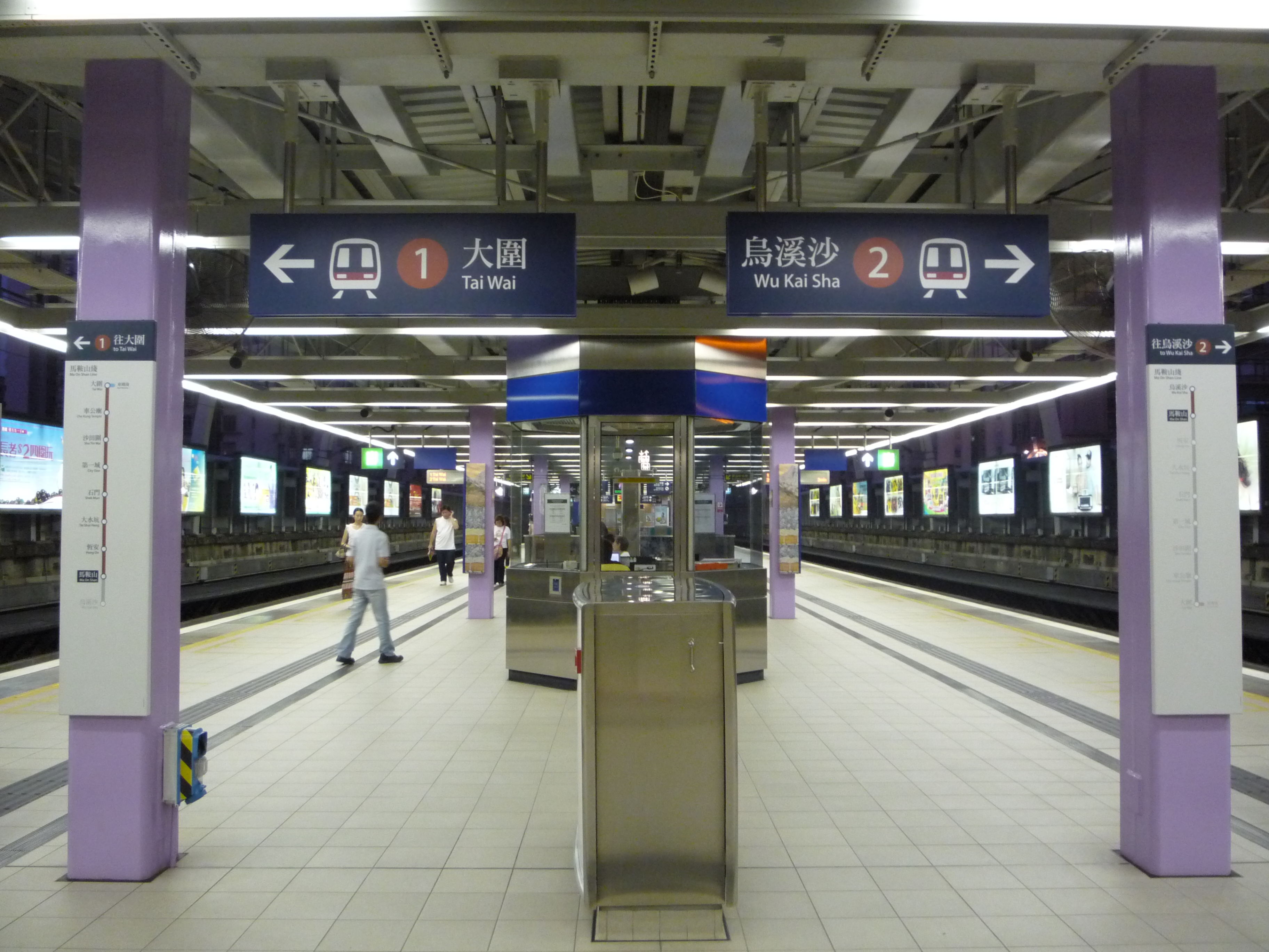 MTR Ma On Shan Station platform